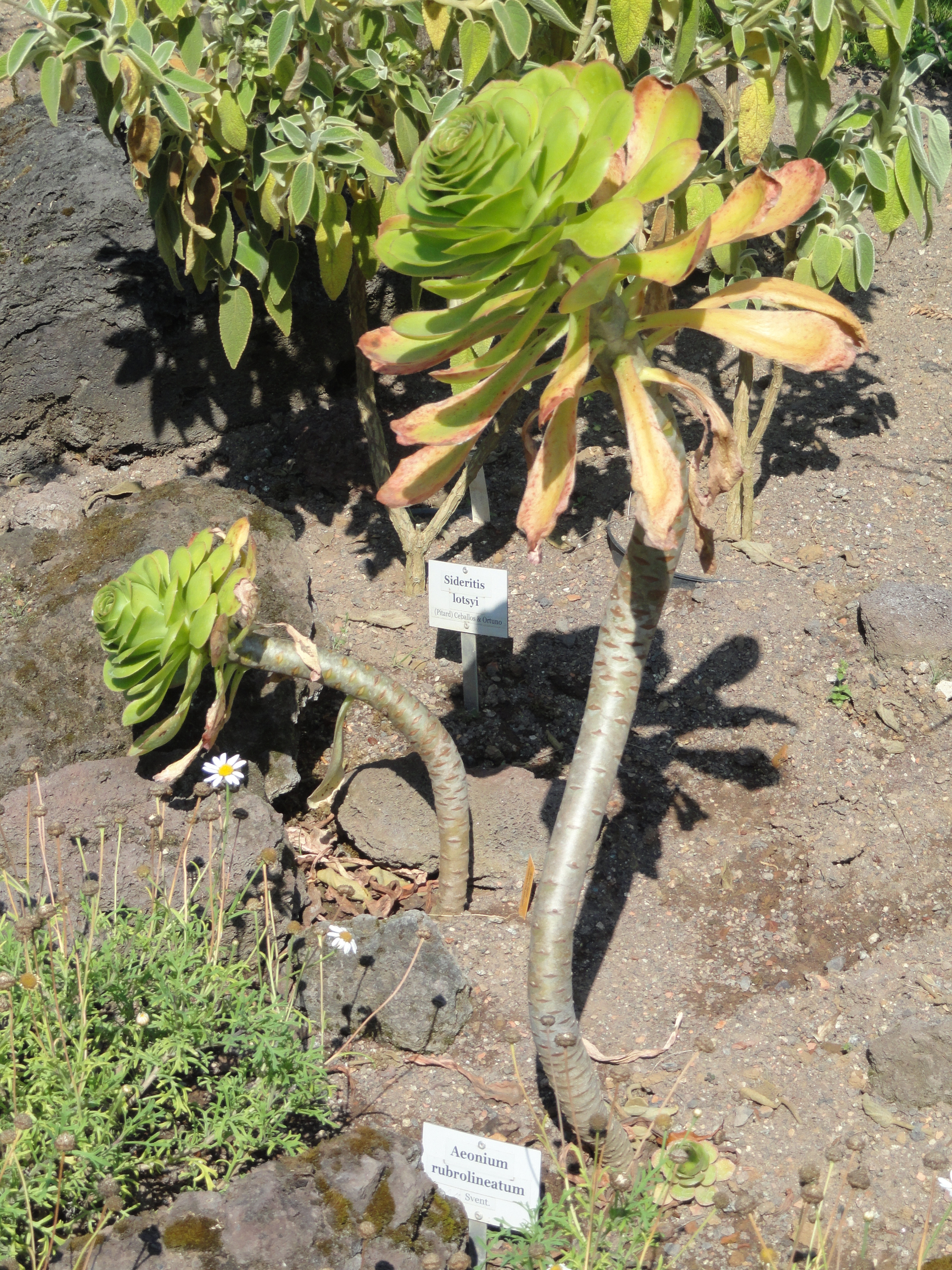 Specimen in the Botanischer Garten, Frankfurt am Main, Germany.